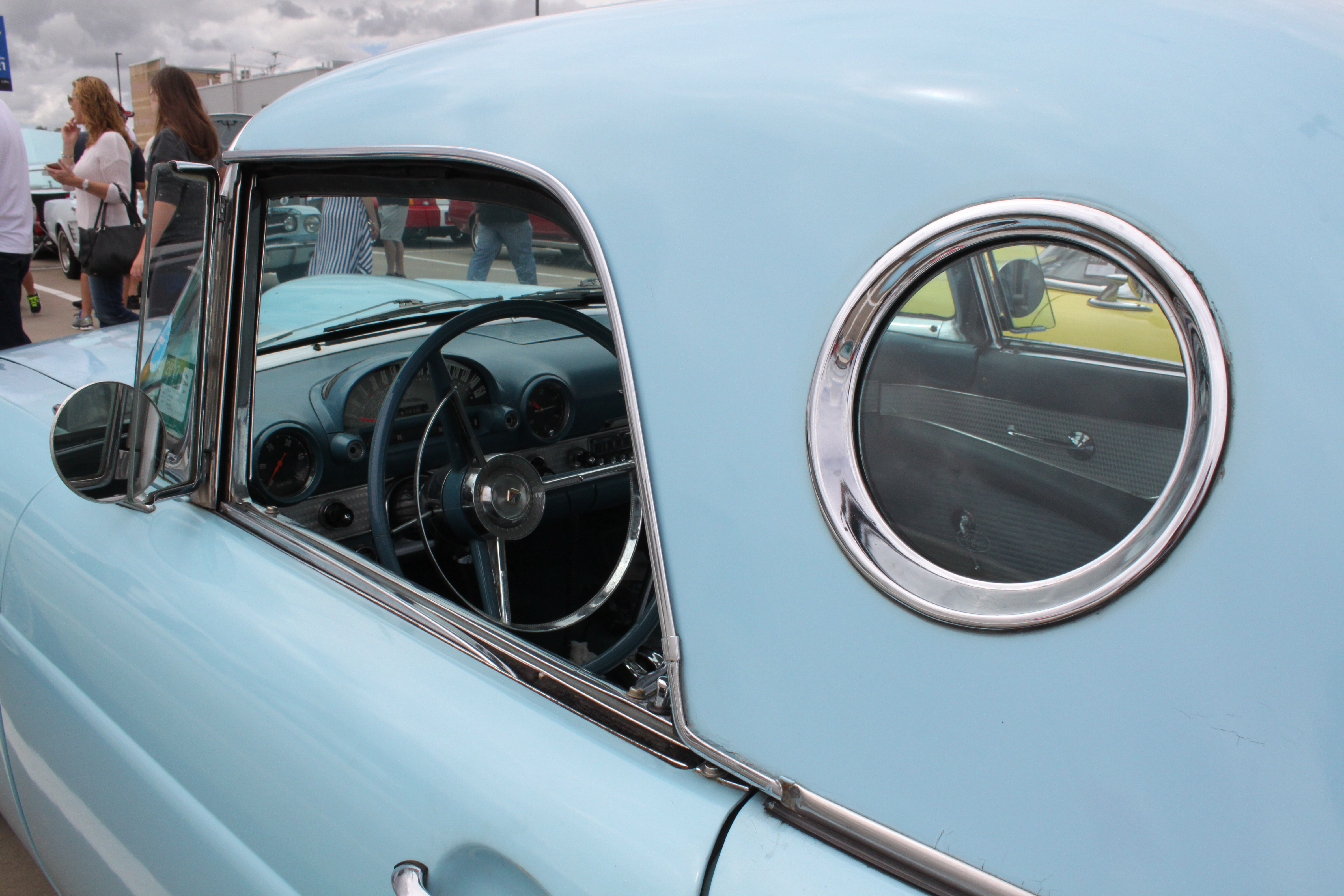 All American Car Show, Castle Hill NSW, January 2016